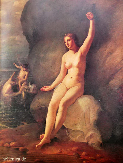 Greek painter Nikolaoaos Kounelakis (1829-1869):Andromeda